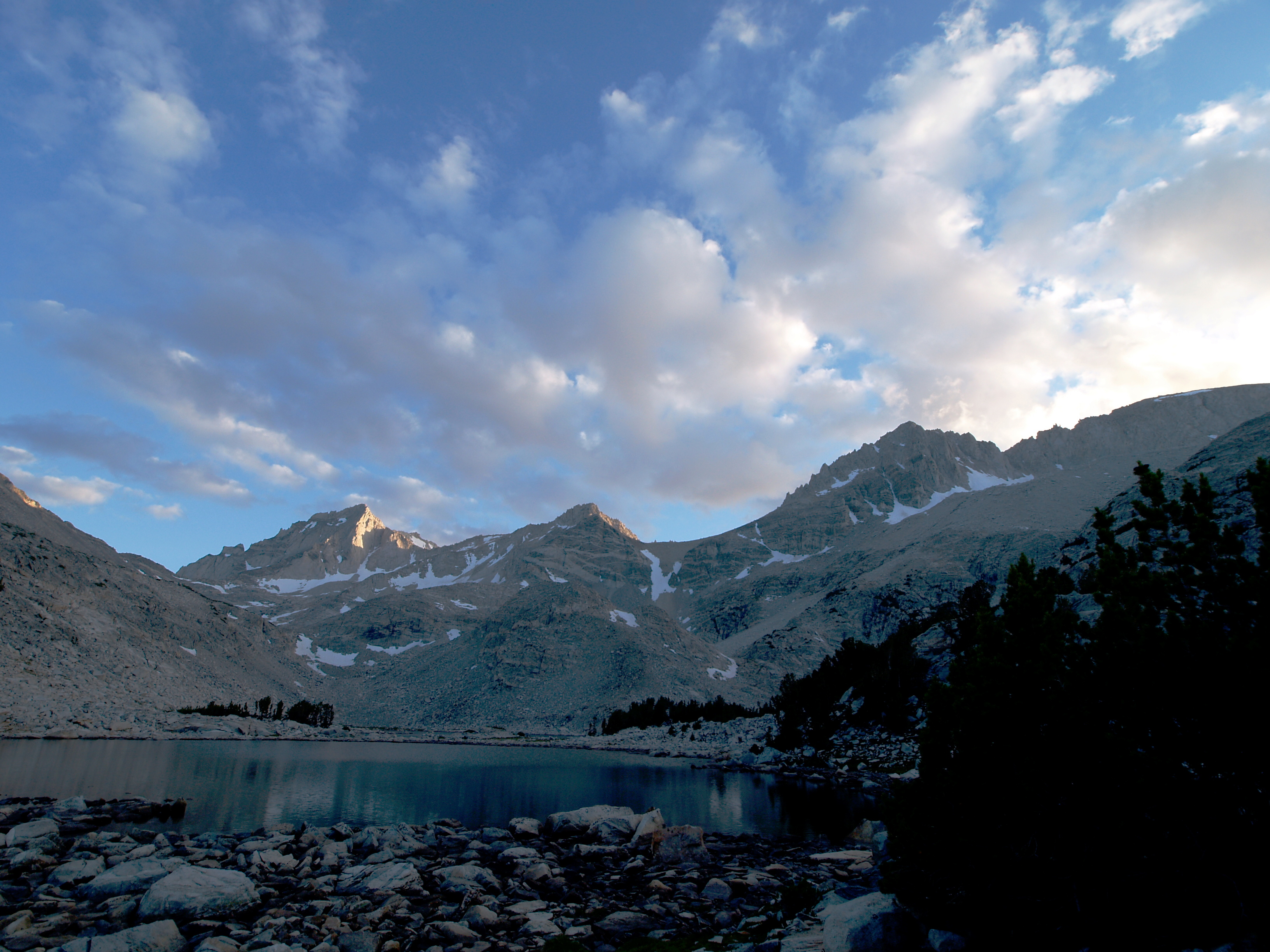 Mount Abbot (left) and Mount Mills (right) at the end of Little Lakes Valley, Eastern Sierra Nevada, California